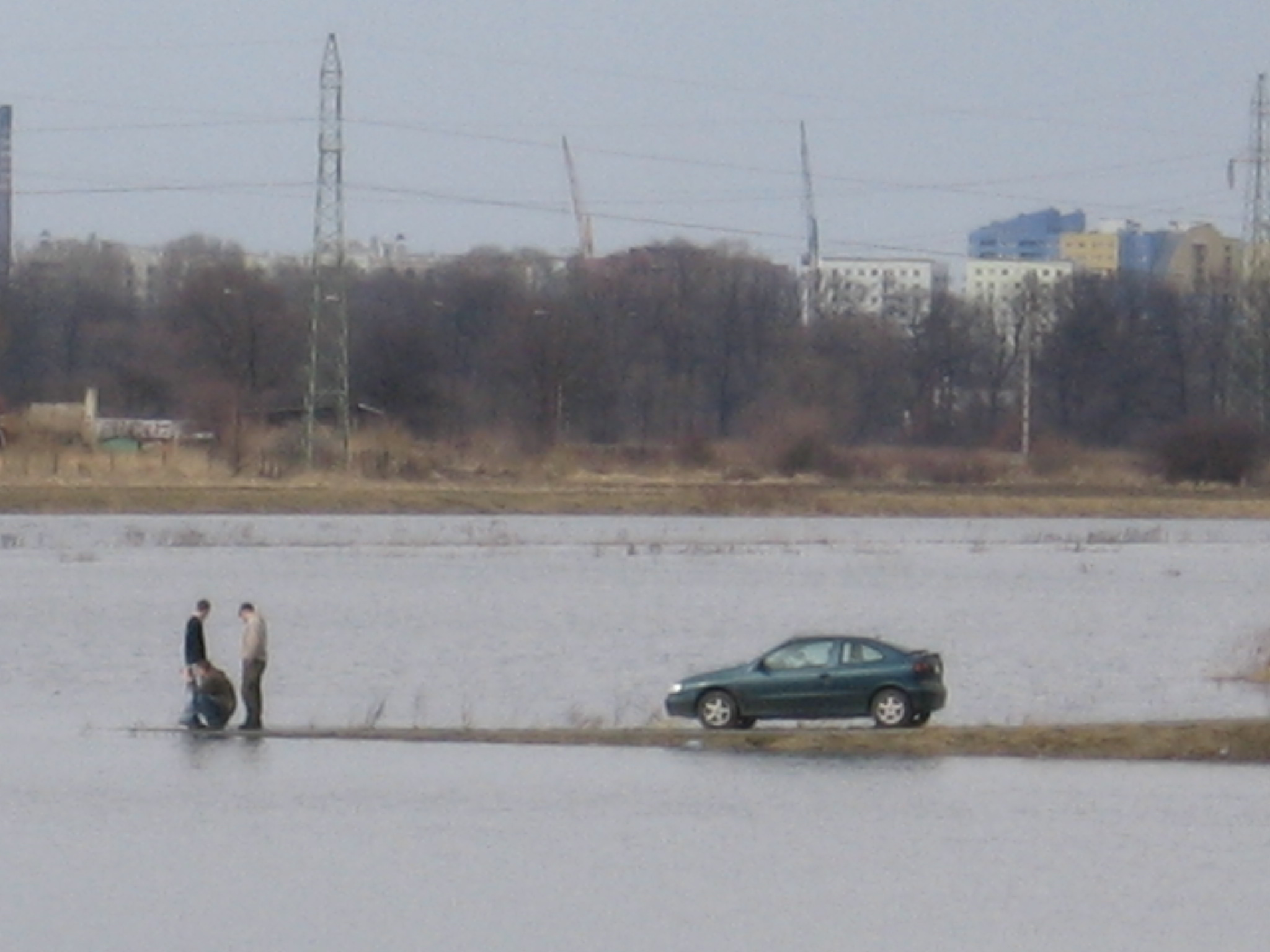 The channel between Odra River and Widawa River in Wrocław during the spring flood of April 2006. The car on the picture travelling on the Ludowa street has been forced to stop as the bridge over the channel is under aproximately 30 cm of water.